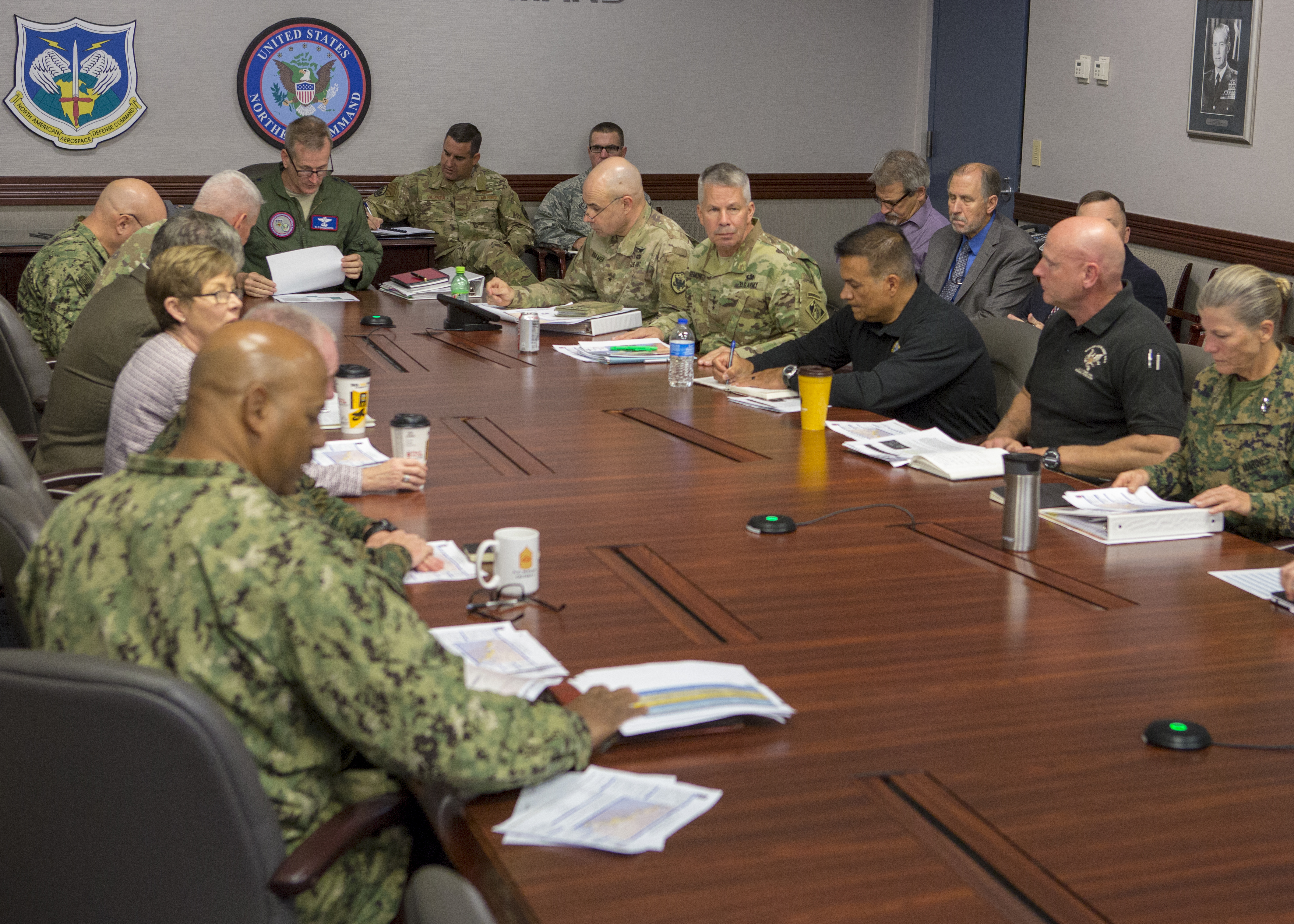 U.S. Air Force General Terrance J. O'Shaughnessy, Commander of the North American Aerospace Defense Command and U.S. Northern Command provides guidance to Department of Defense personnel, in coordination with Customs and Border Protection liaison officers and other supporting interagency partners, during a planning and operational update briefing about mission-enhancing DoD capabilities that will be provided in support of the Department of Homeland Security, Oct. 28, 2018. USNORTHCOM serves as the synchronizer of DoD forces providing mission-enhancing capabilities in support of DHS and CBP along the Southwest Border.